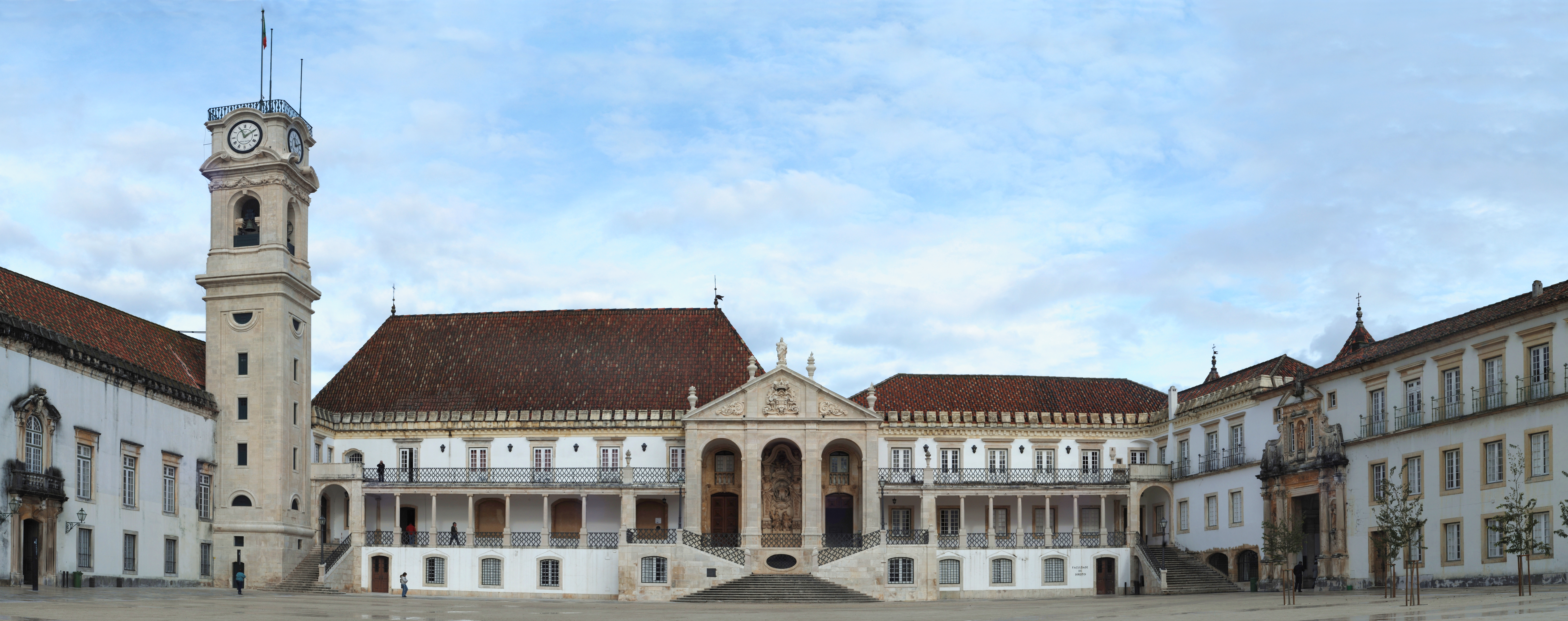 Court of the University of Coimbra, Portugal